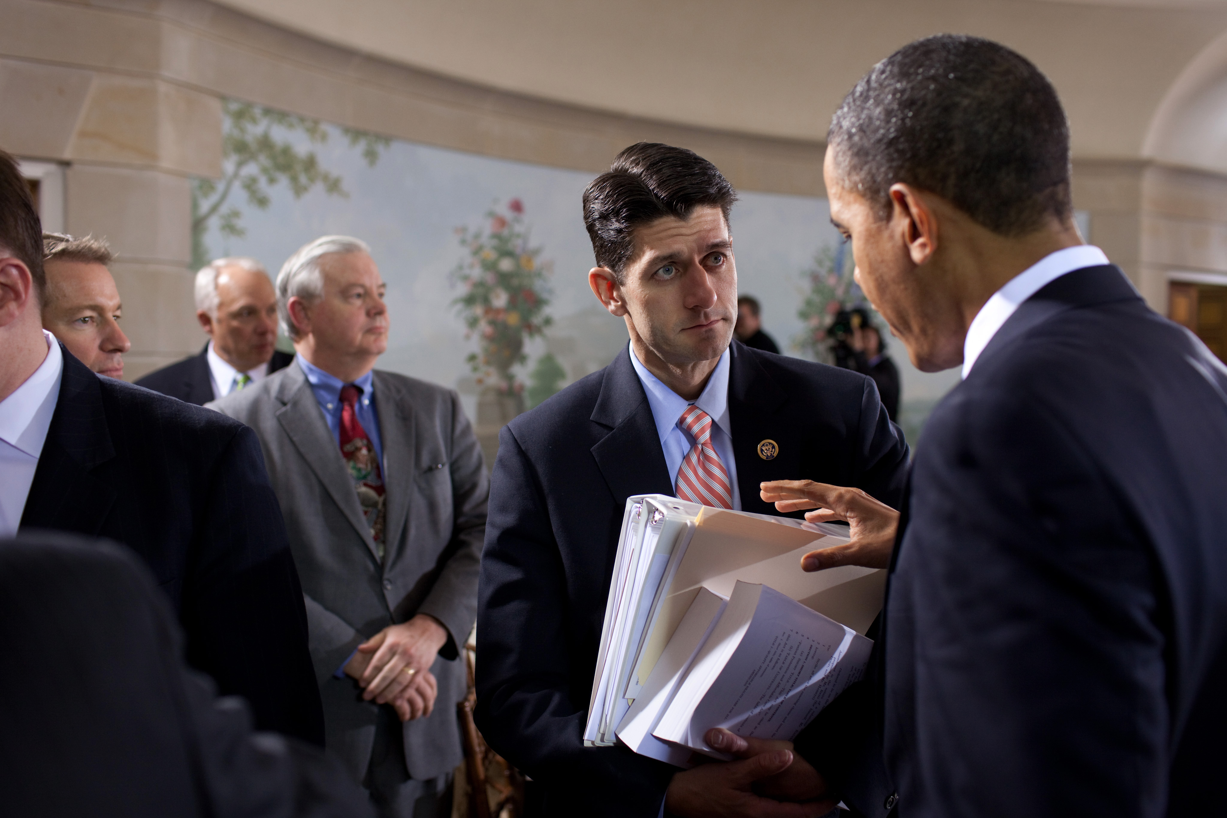 President Barack Obama talks with Rep. Paul Ryan, R-Wisc., during the nationally televised bipartisan meeting on health insurance reform at Blair House in Washington, D.C., Feb. 25, 2010. (Official White House Photo by Pete Souza)